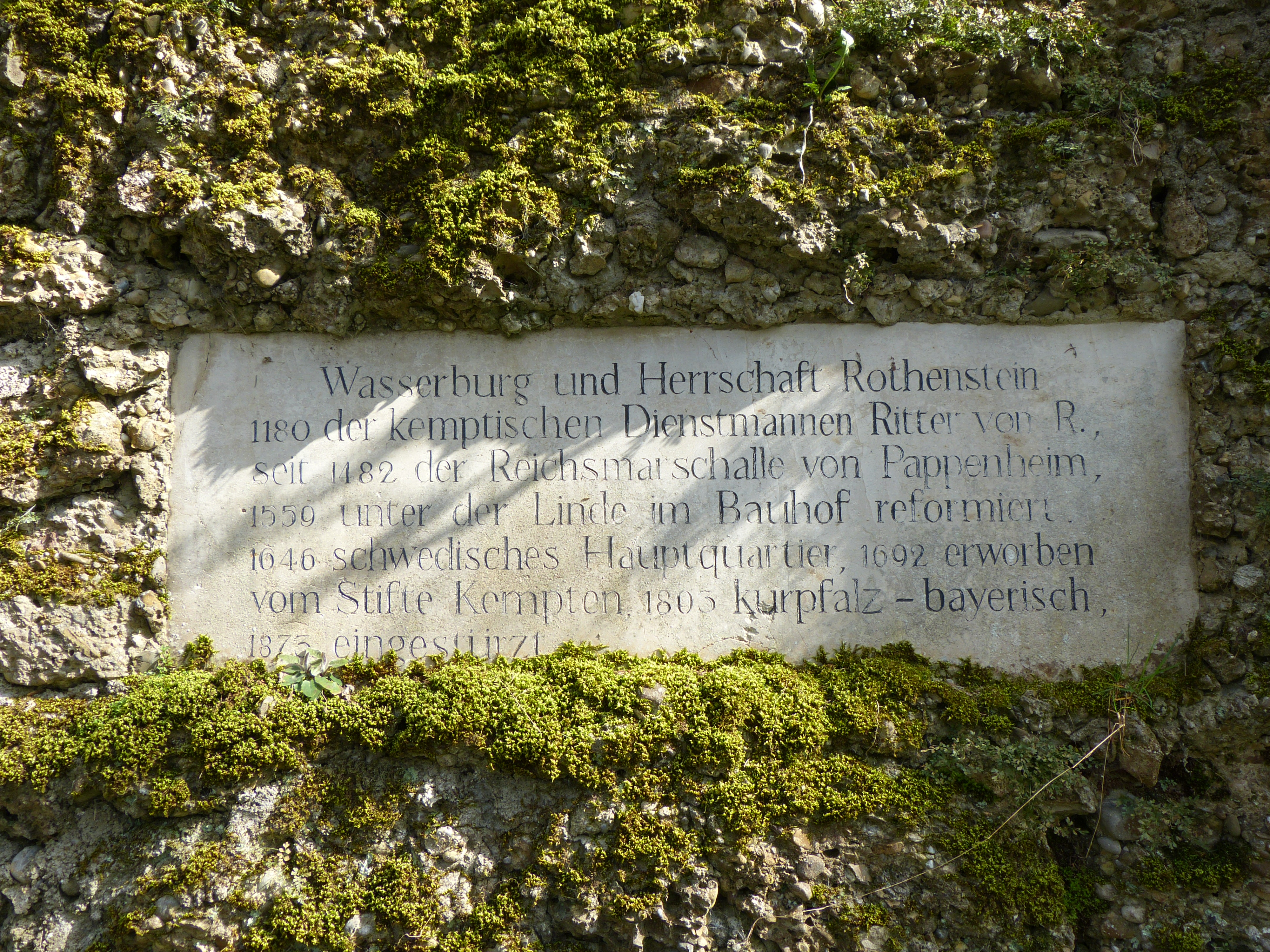 Ruins of castle Rothenstein, Landkreis Unterallgäu, Bavaria